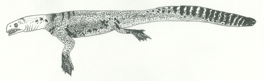 Artist's depiction of Helveticosaurus.